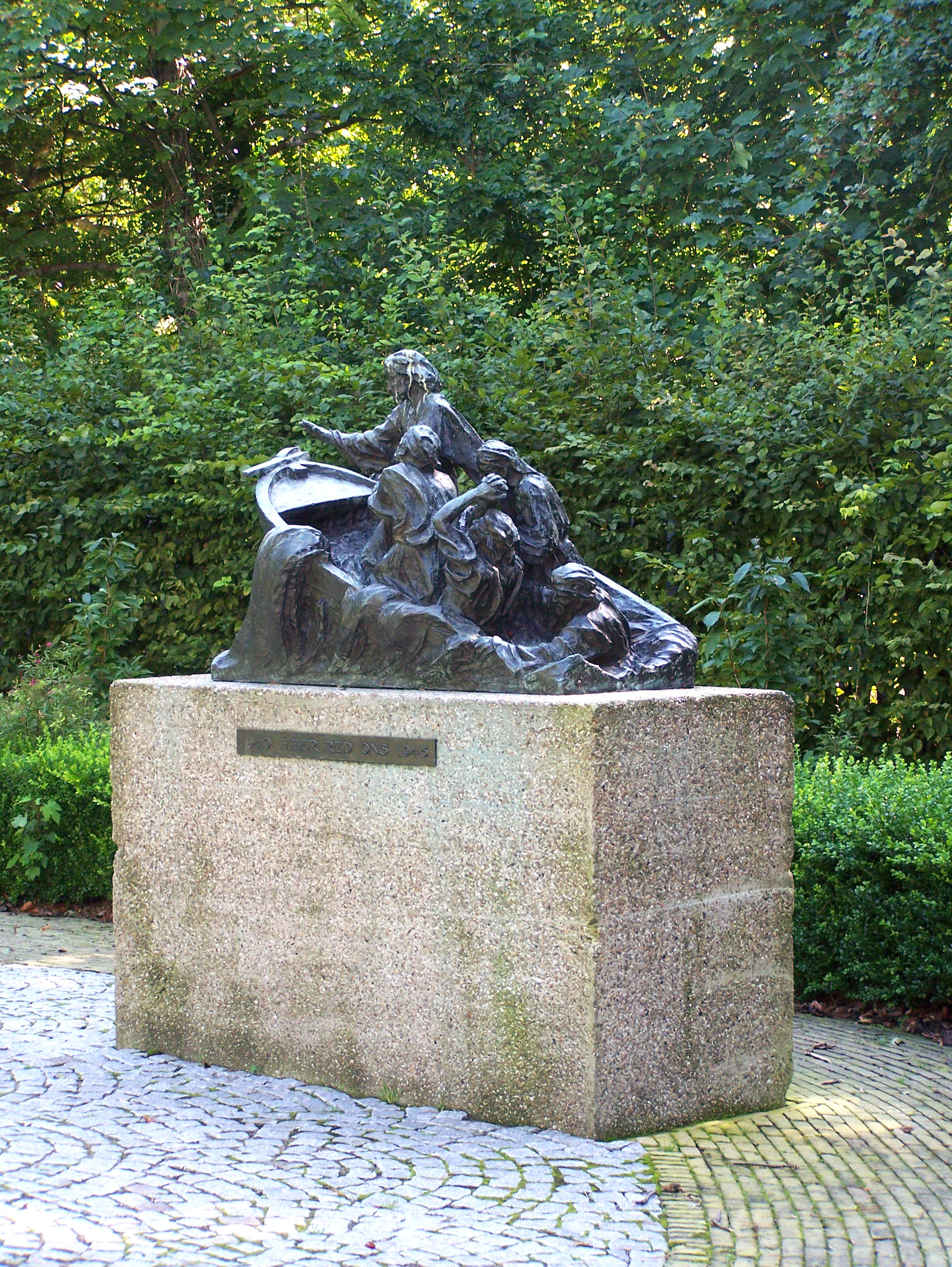 World War II memorial "O, heer red ons" (O, Lord save us) in Heerhugowaard. Made by Henk J. Etienne in 1951. Placed at the Korte Dreef.